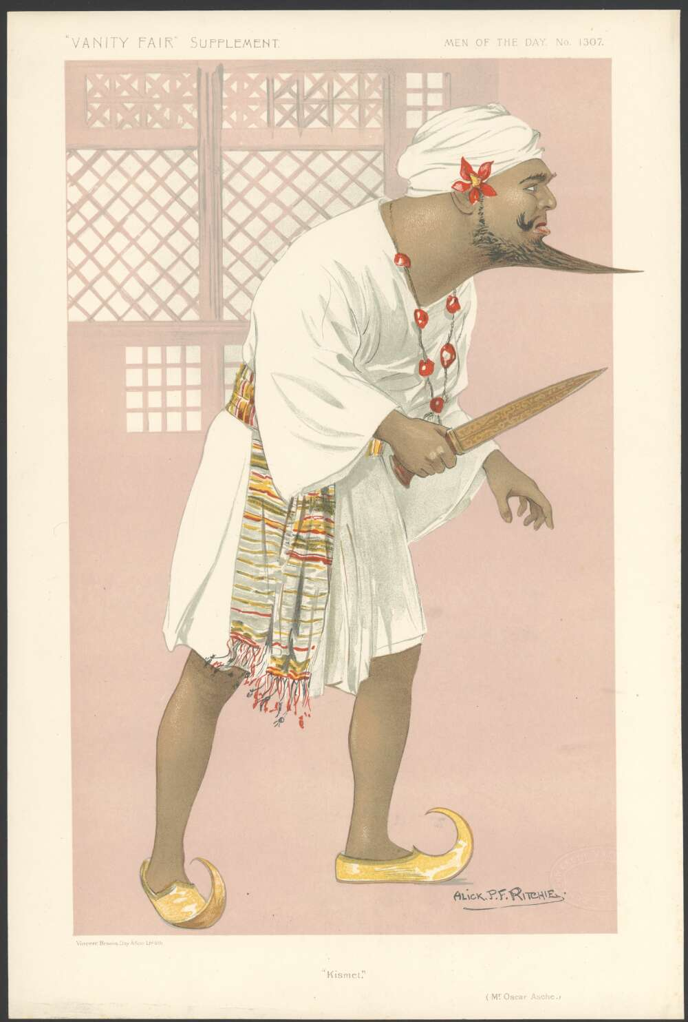 Caricature of O Asche. Caption read "Kismet".